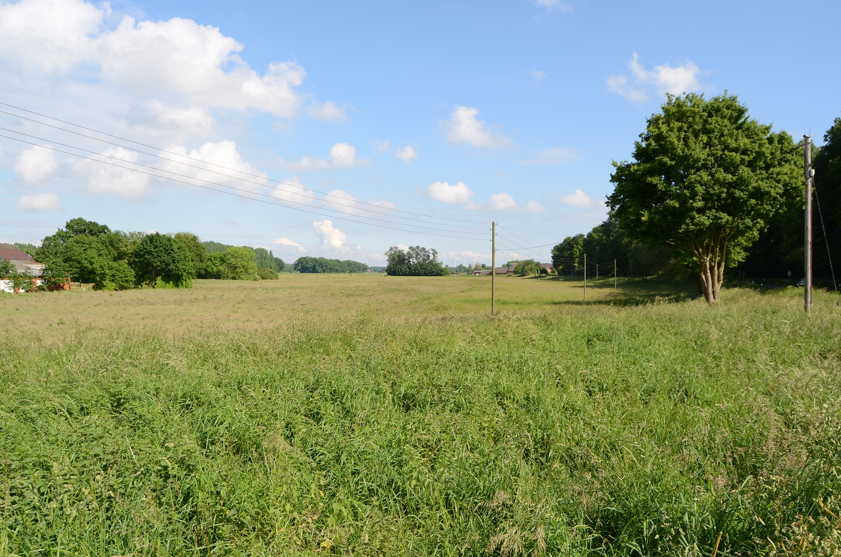 Sonsbeck (North Rhine-Westphalia, Germany) – lowland landscape and nature reserve Grenzdyck This photograph was taken with a Nikon D7000.